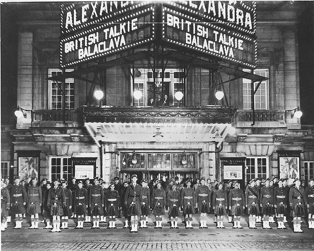 Soldiers at Royal Alexandra Theatre, Toronto, Canada, which is showing the British film Balaclava (1928) after it was reissued as a talkie.